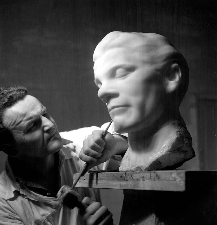 Vojin Bakić radi na skulpturi I. G. Kovačića, 1946